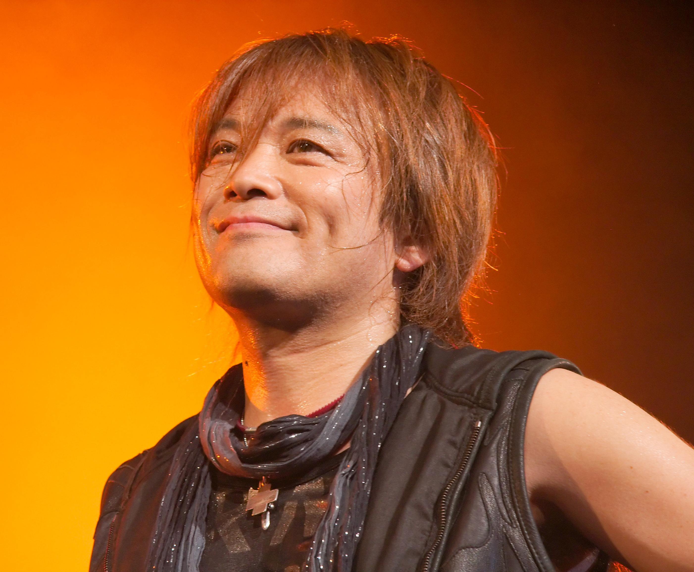 JAM Project live at Chibi Japan Expo 2008 (Paris, France).